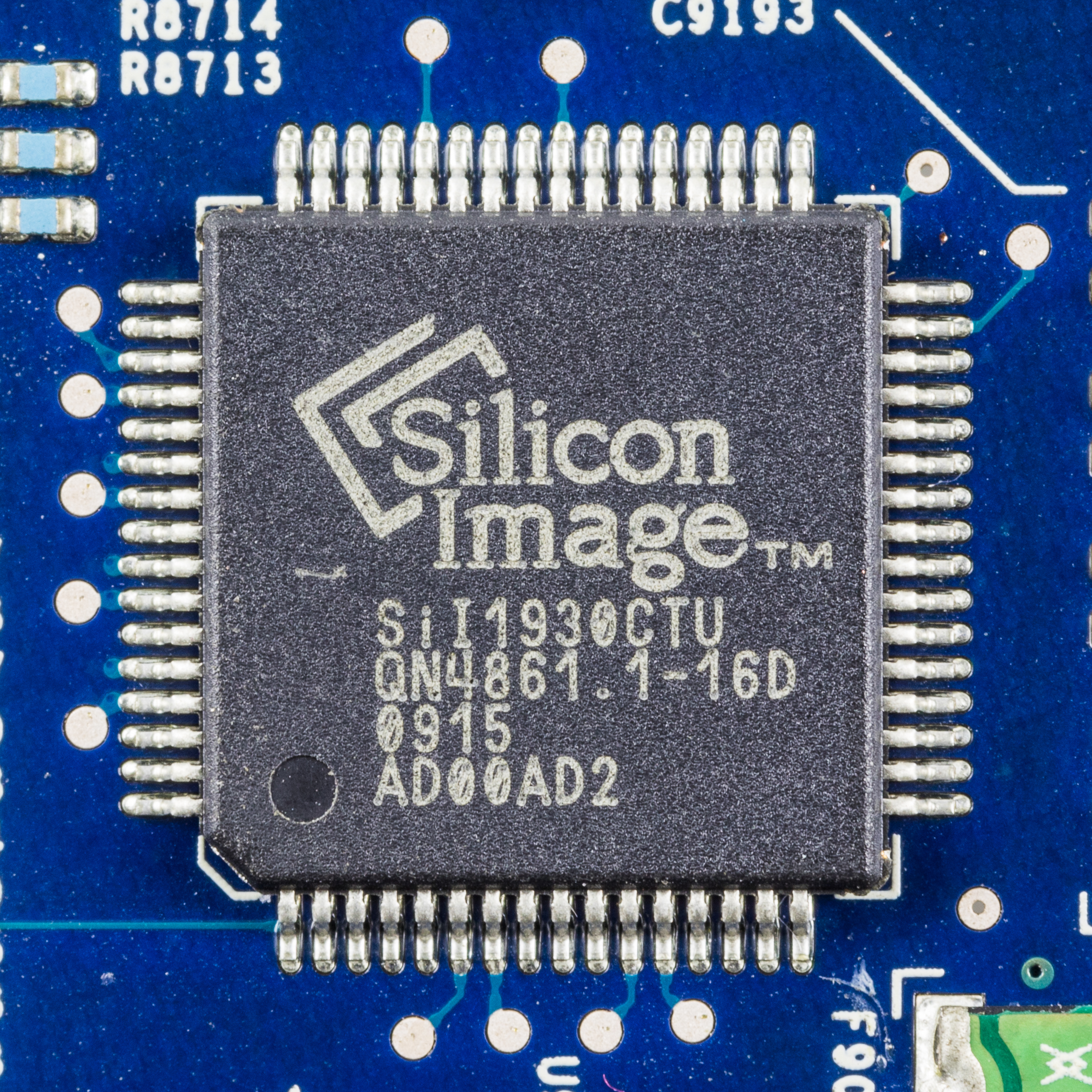 Apple TV, 1st generation - mainboard - Silicon Image SiI1930CTU - PanelLink / HDCP Transmitter. Package: 64-pin TQFP